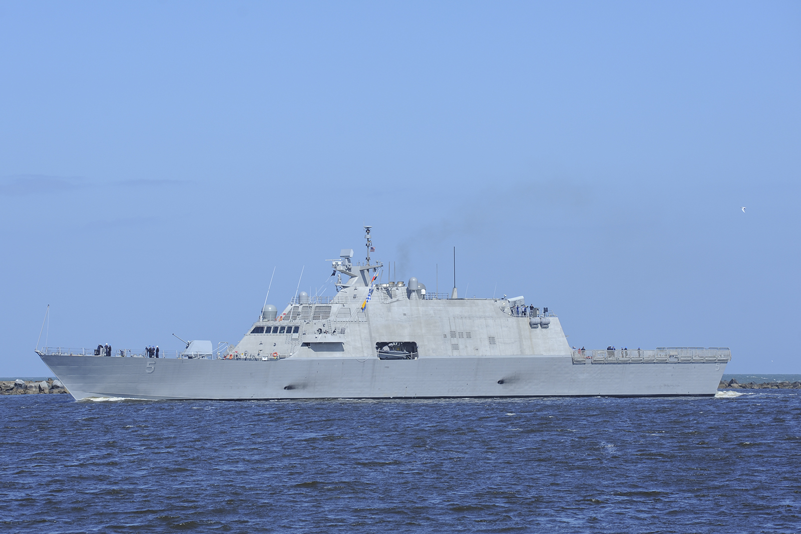 The U.S. Navy littoral combat ship USS Milwaukee (LCS-5) transits Naval Station Mayport harbour on its way into port for a maintenance period. While in Mayport, Florida (USA), it took on equipment for underway testing in the spring of 2016.